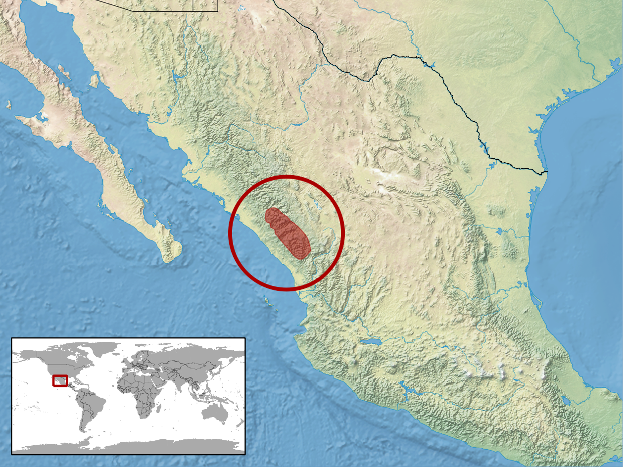 geographic distribution of Crotalus stejnegeri (Native: Mexico)